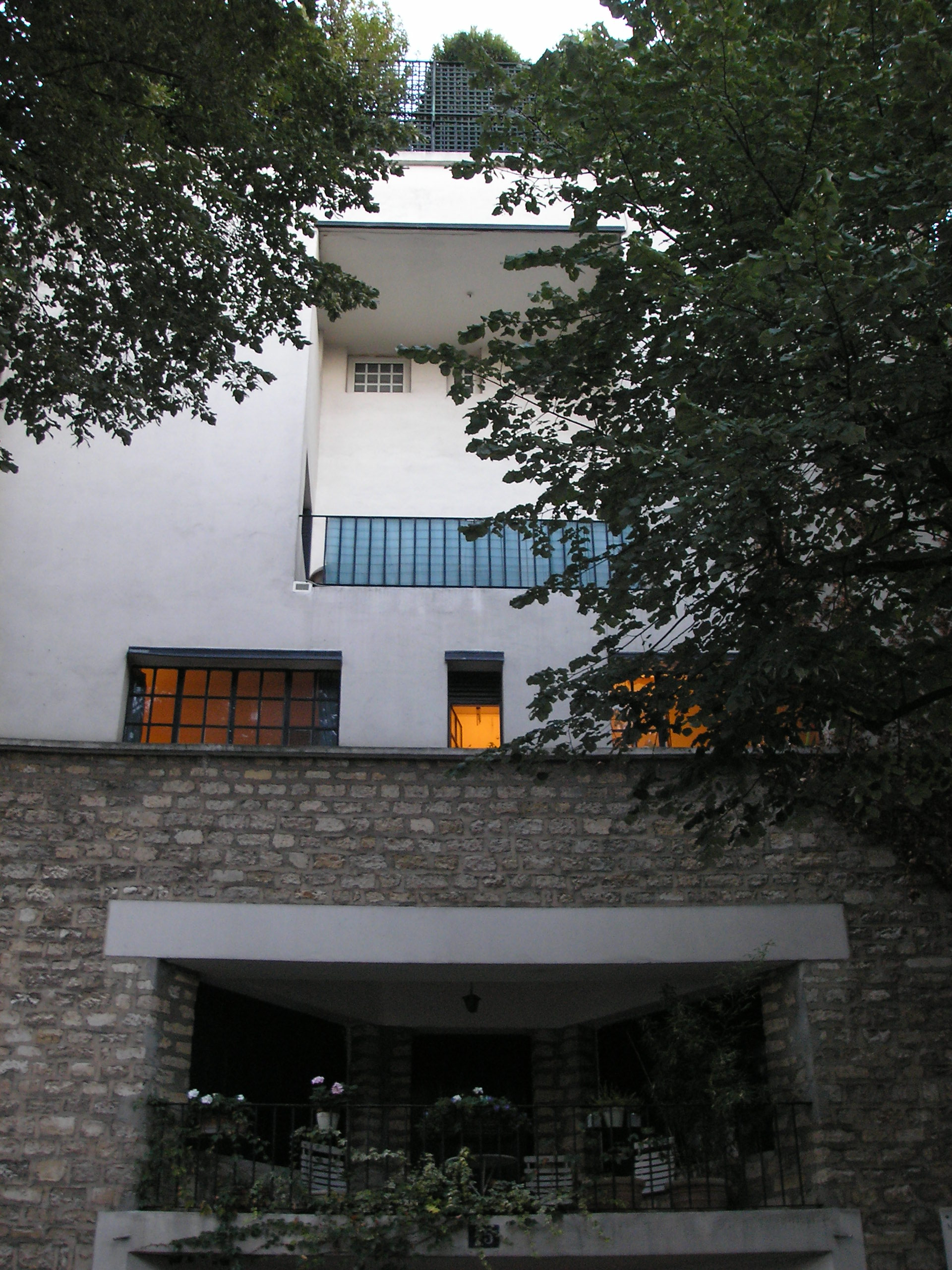 View of the house of Tristan Tzara in Paris, 15 Avenue Junot in Paris 18th arrondisement. Constructed by the Austrian architect Adolf Loos in 1926.